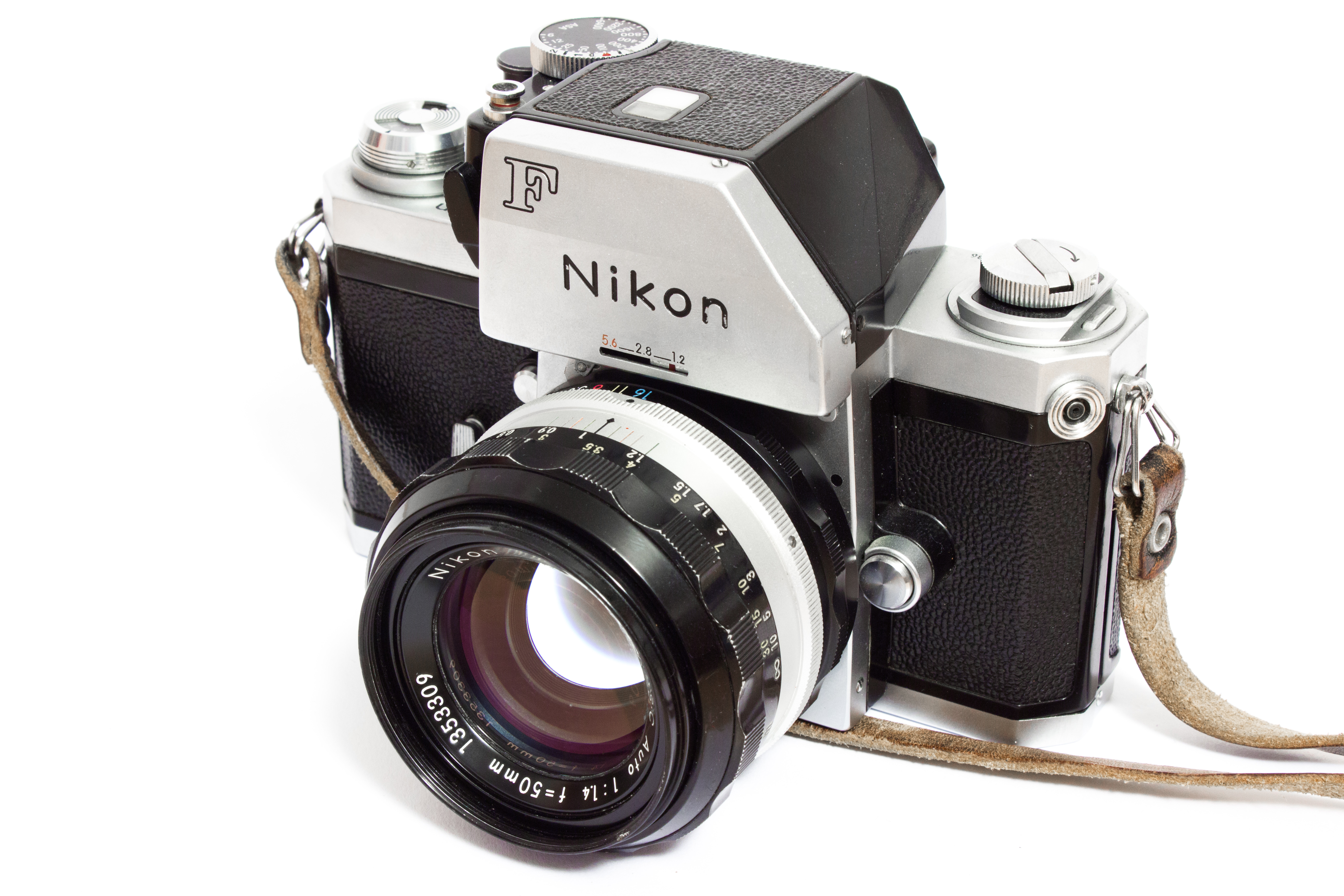 Home Studio shot of the femous Nikon F SLR analog camera with original 50mm f1.4 Nikkor lens.